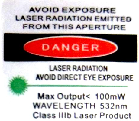 A laser warning label, cropped from File:Laser label.jpg.